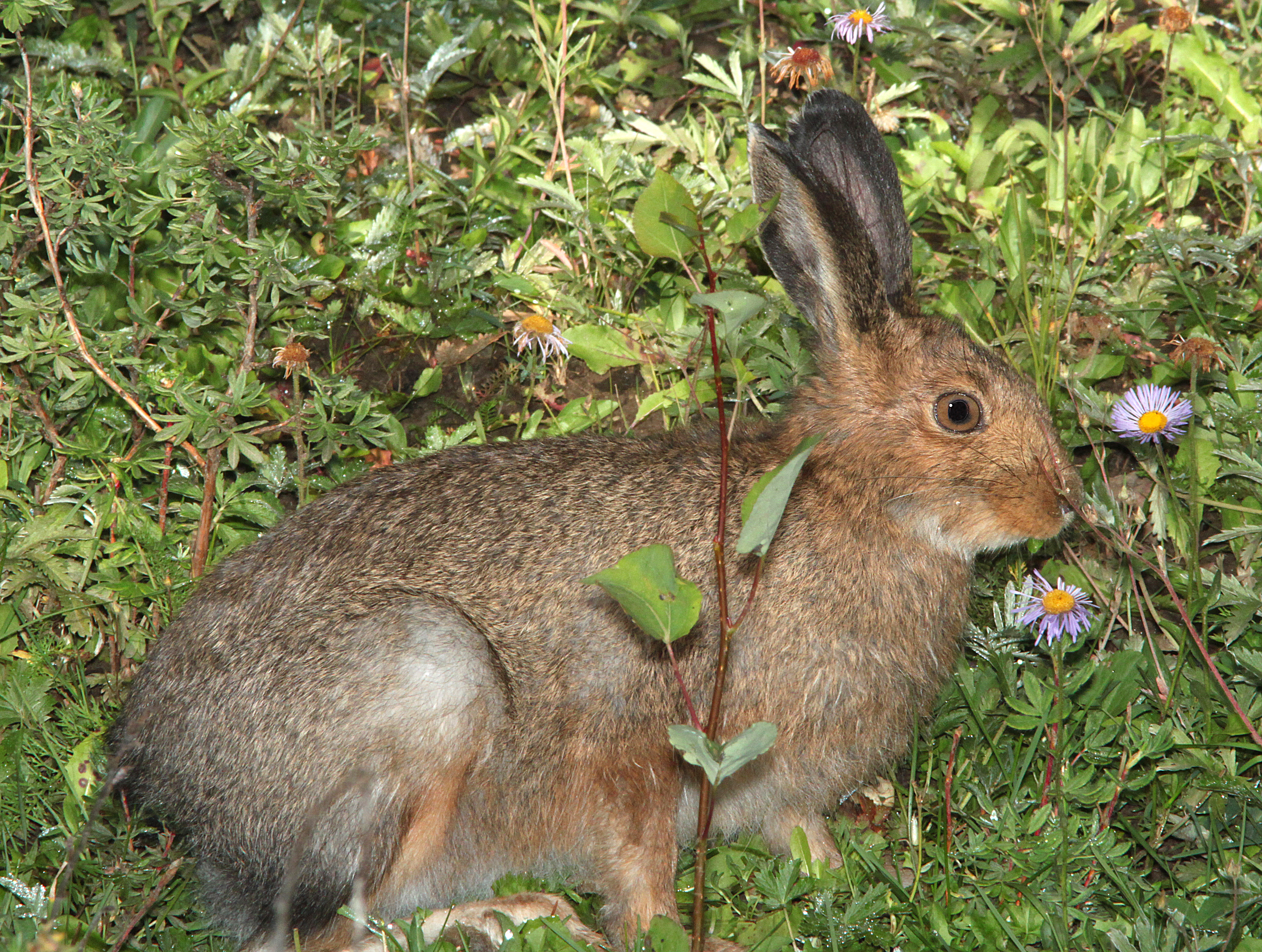 CRITTERS (MAMMALS)